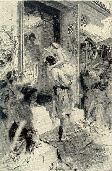 From a drawing of André Castaigne. A Roman marriage custom. The picture shows the bride entering her new home in the arms of the bridegroom.